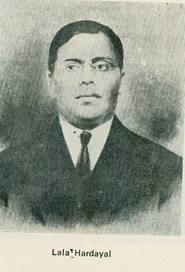 Lala Har Dayal (Hindi: लाला हरदयाल, Urdu: لالا ہردیال; October 14, 1884, Delhi, India - March 4, 1939, Philadelphia, Pennsylvania) was a Indian nationalist revolutionary[1] who founded the Ghadar Party in America. He was a polymath who turned down a career in the Indian Civil Service. His simple living and intellectual acumen inspired many expatriate Indians living in Canada and the USA to fight against British Imperialism during the First World War.